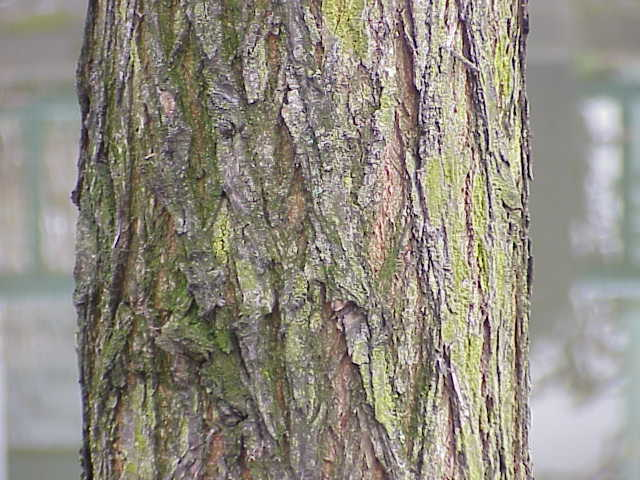 Species: Ulmus americana Family: Ulmaceae Image No. 1